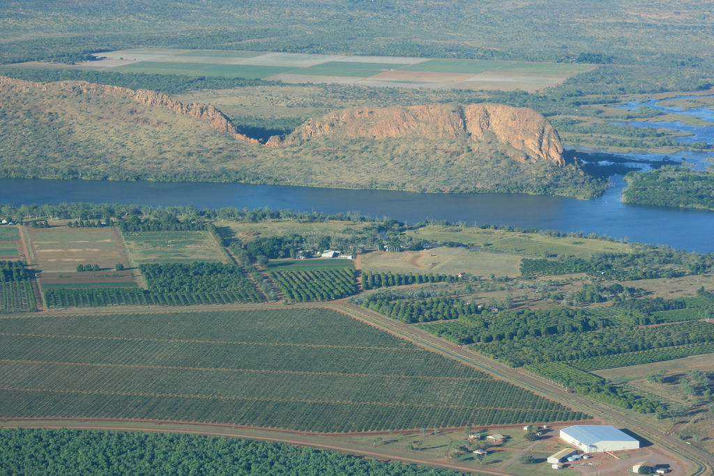 over looking ORD river from packsaddle Roa,leeing budah in the background